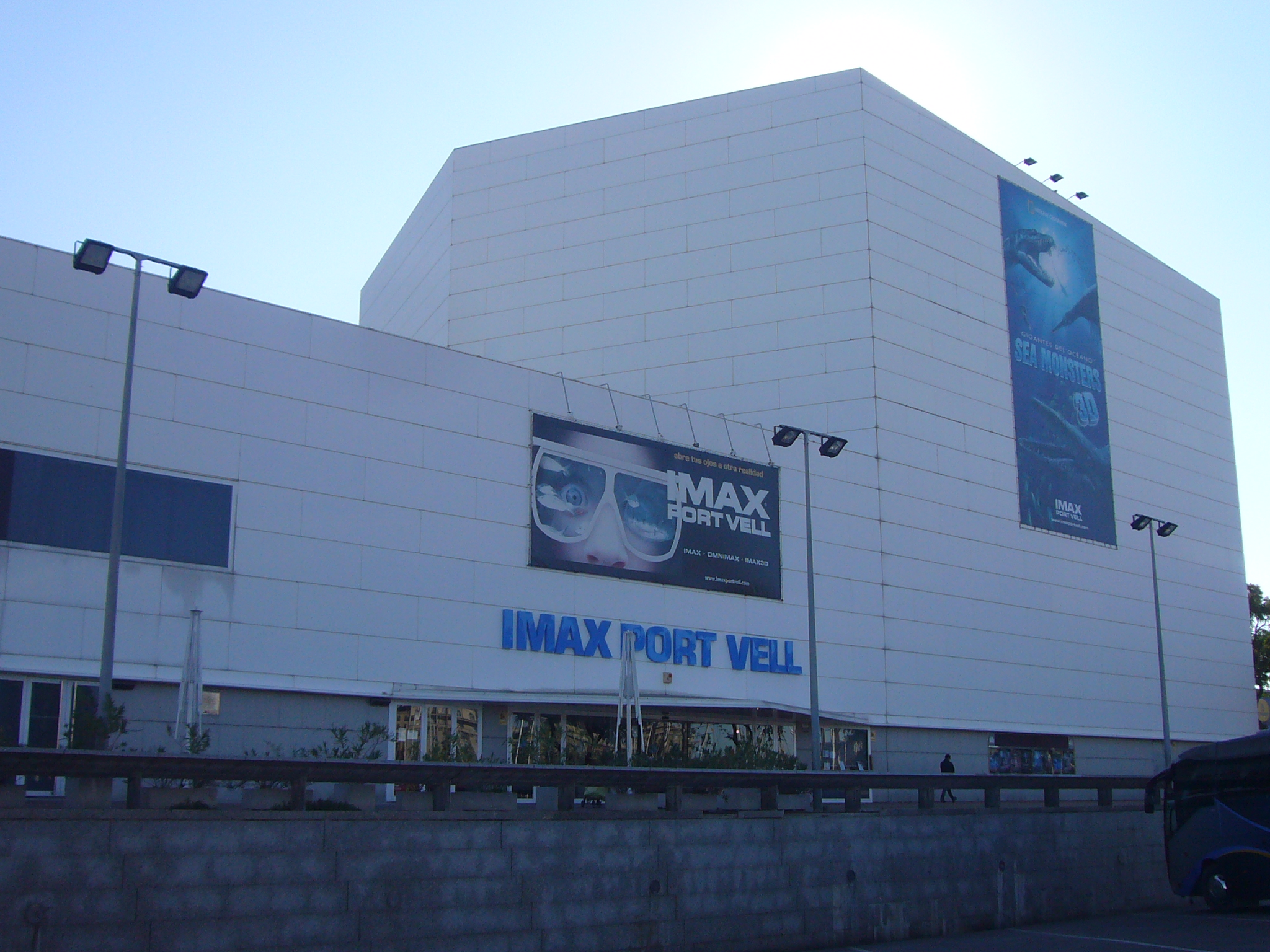 Imax Port Vell Barcelona